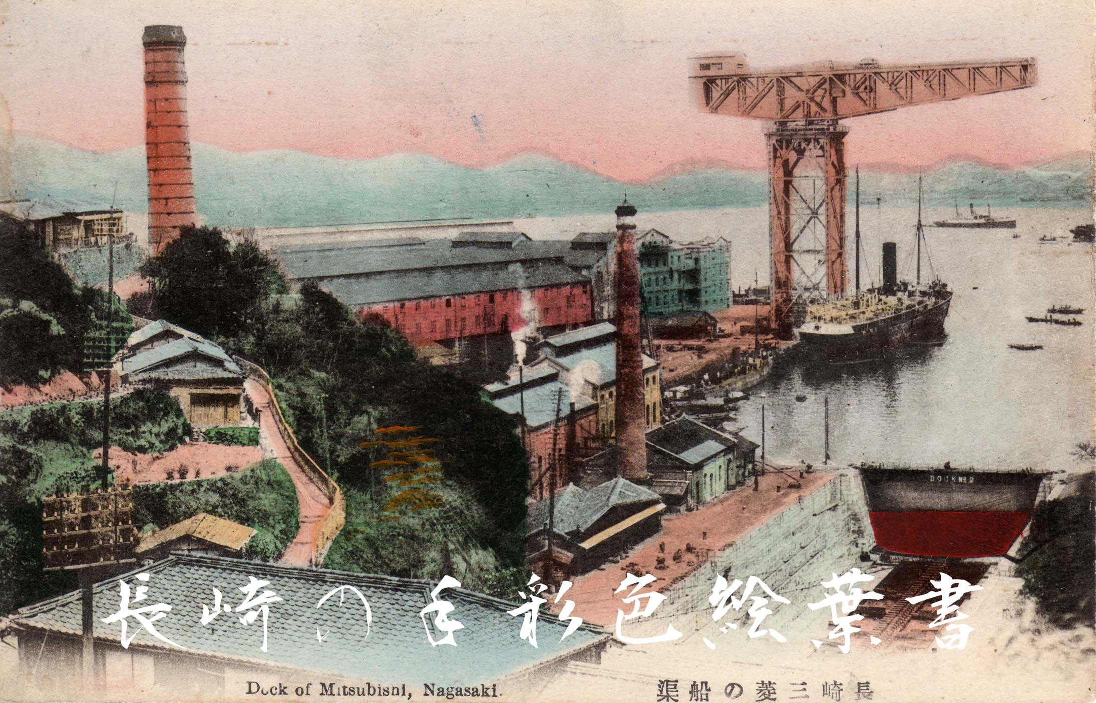 Japanese hand tinted postcard showing the Mitsubishi Dockyard in Nagasaki